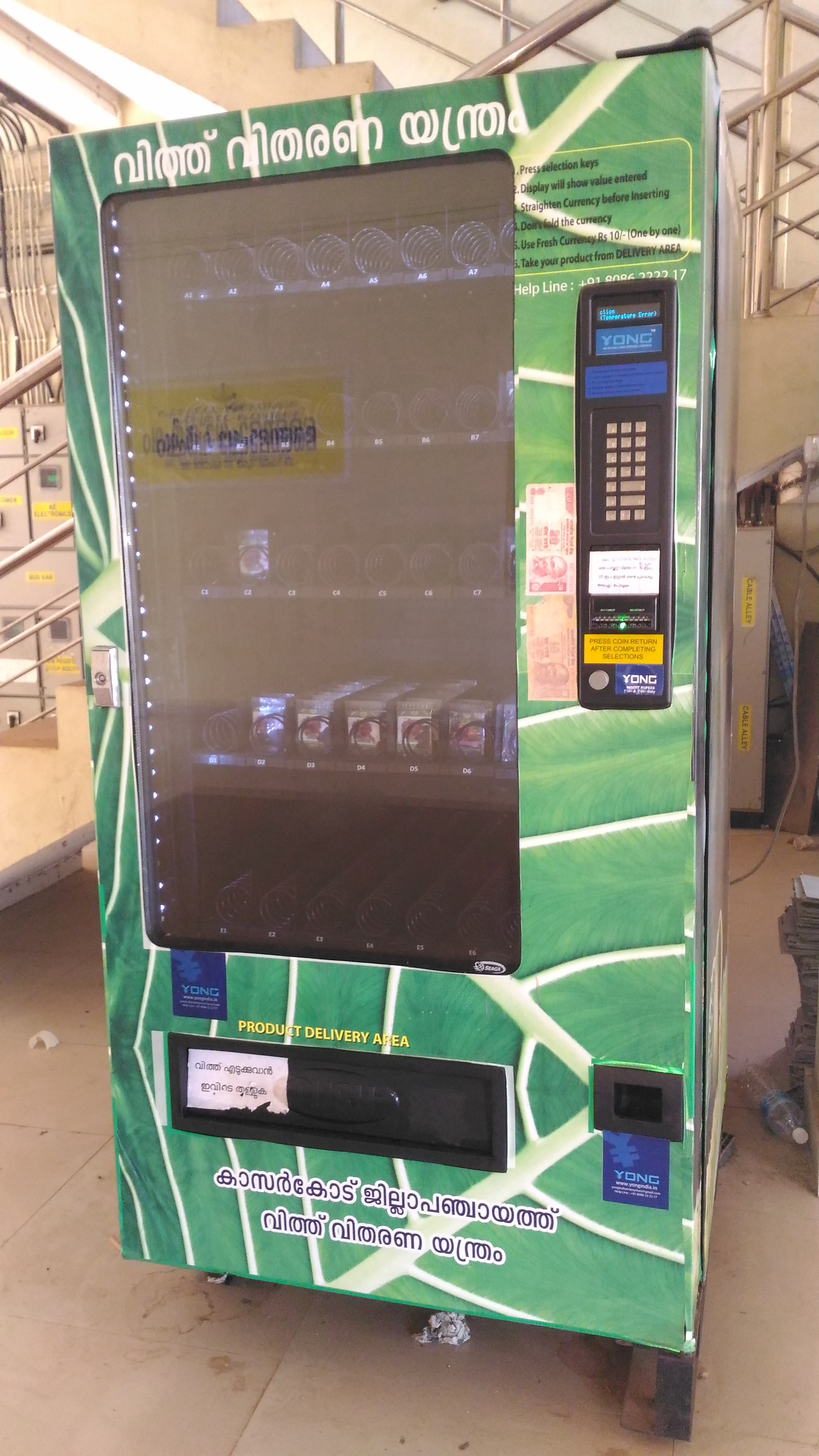 Seed vending machine at Mini Civil Station Kanhangad